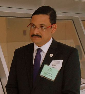 Sept. 22, 2015: Dr. Chen Zhang (left) Assistant Manager for Operations at NIST’s Center for Nanoscale Science and Technology (CNST) describes how the Center provides stakeholders with access to world-class nanoscale measurement and fabrication methods to University of Puerto Rico President Dr. Uroyan Ramos (right). Credit: A. Eustis/NIST